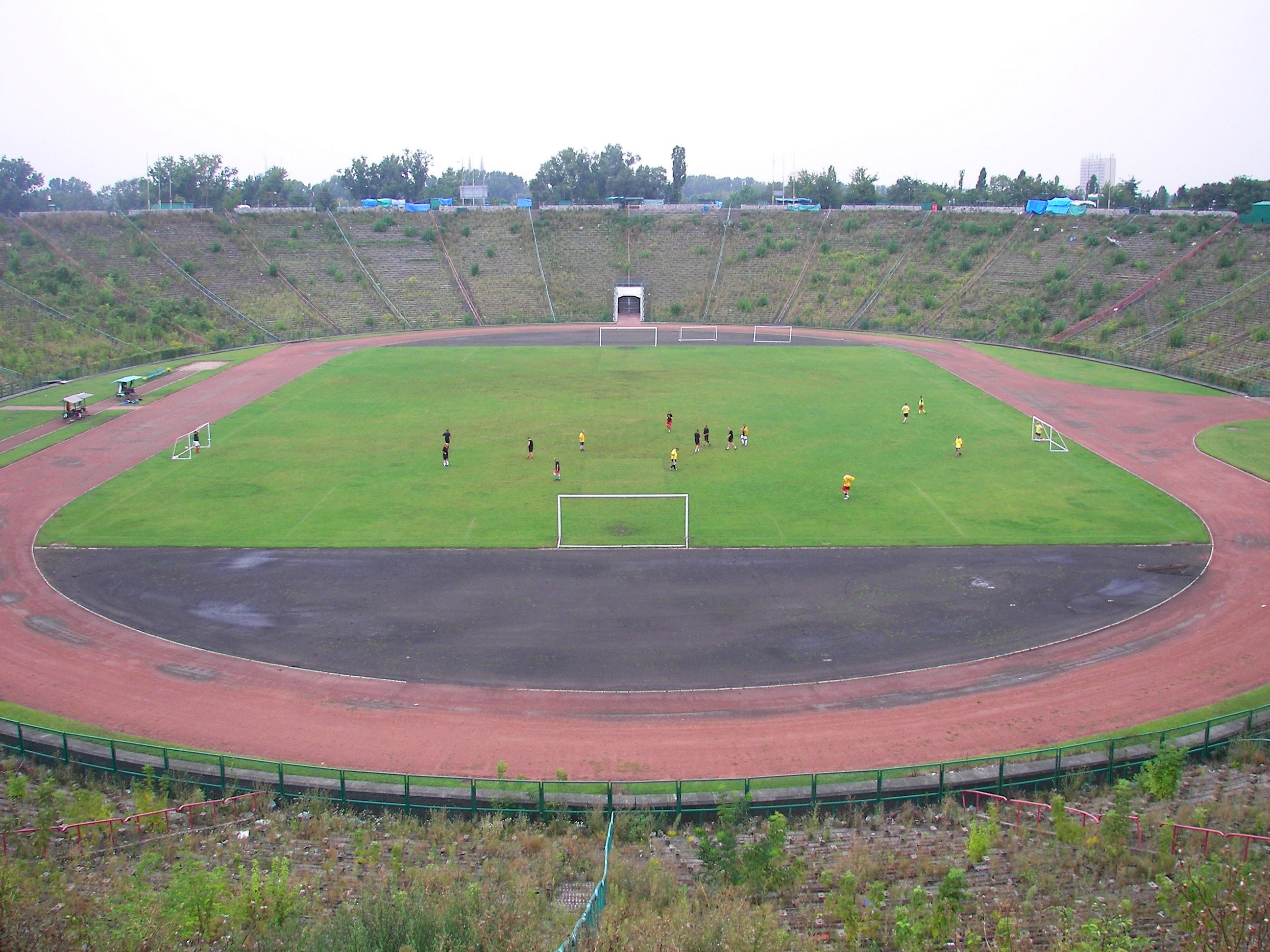 10th Anniversary Stadium, Warsaw, Poland (13 August 2007)